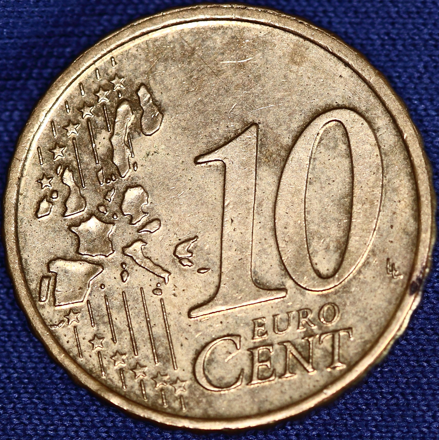 Common face of the coin.